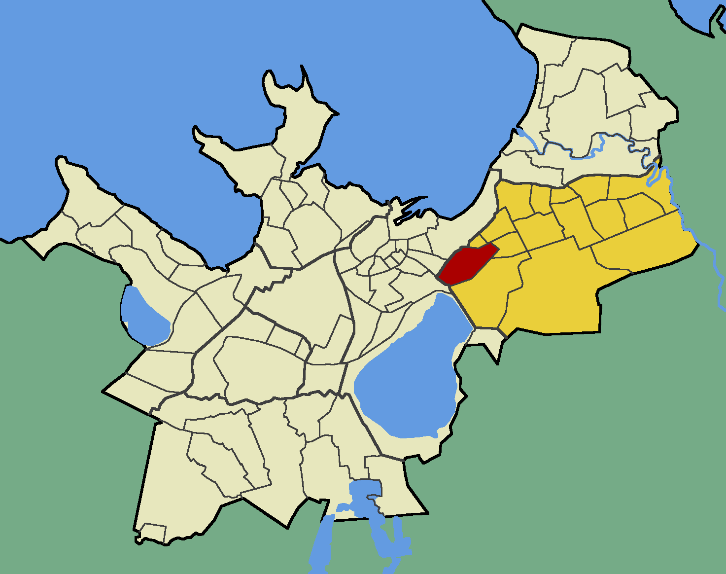 Map of Tallinn (Estonia) with borders of the quarters, Lasnamäe district and Sikupilli quarter emphasised